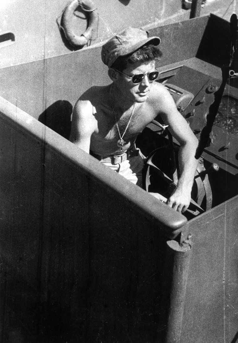 LTJG John F. Kennedy aboard the PT-109